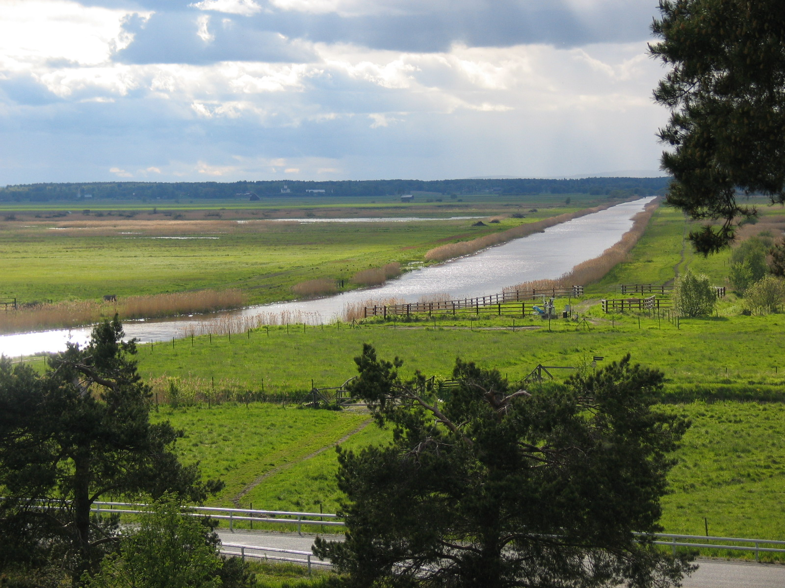 Kvismare canal, Närke, Sweden